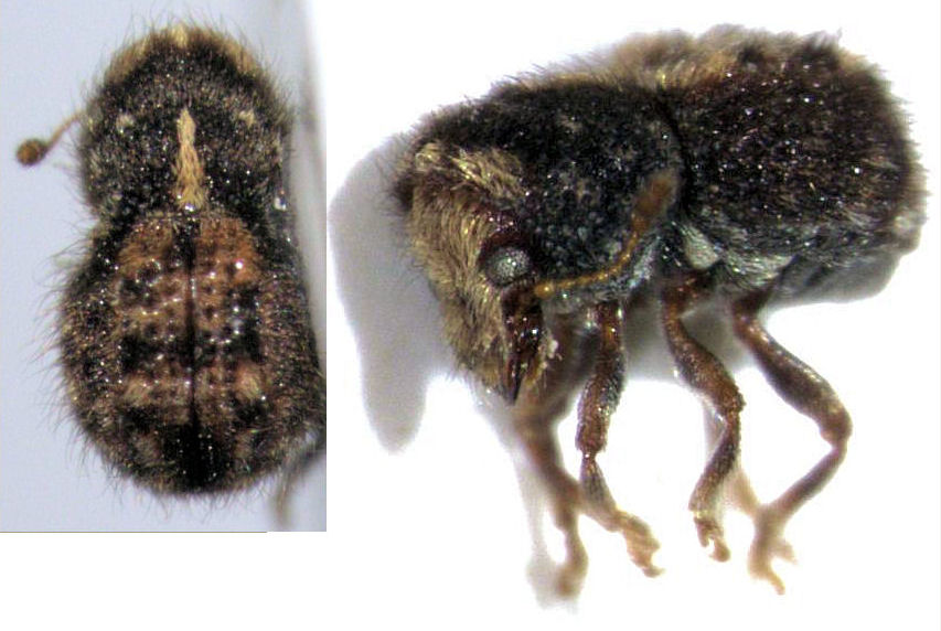 adult Xenanthribus hirsutus